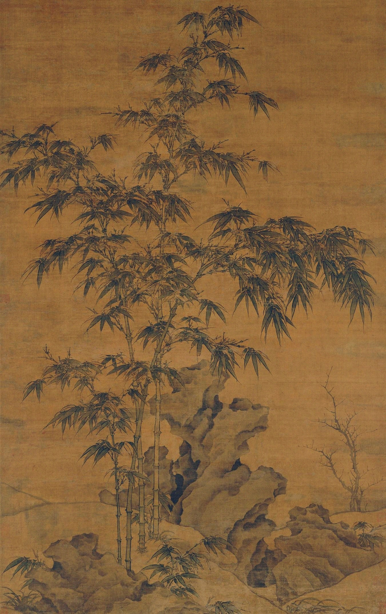 Li Kan, Bamboos with crooked trunks and stones, Palace Museum, Beijing